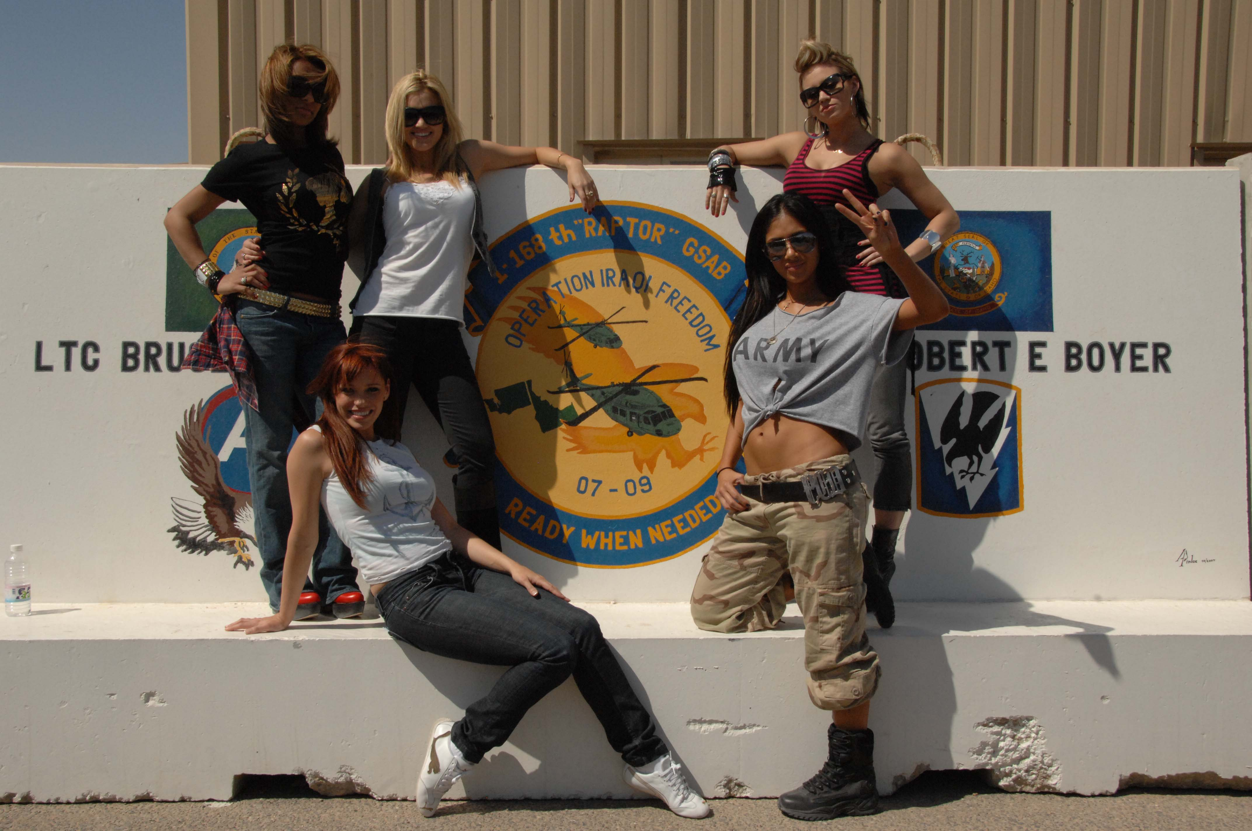 Musical performers, the Pussycat Dolls pose for the troops in front of an Operation Iraqi Freedom unit seal on Camp Buehring, Kuwait, on Mar. 10, 2008. The Pussycat Dolls performed for the concert Operation: MySpace in support of U.S. servicemembers.